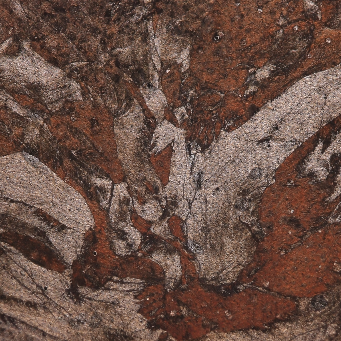 Polycrystalline copper surface. In the lighter phase you can see a phoenix or a bird. Photo taken by Olympus DSX microscope, magnification 69 times, size of photographed area is 4x4 millimeters.